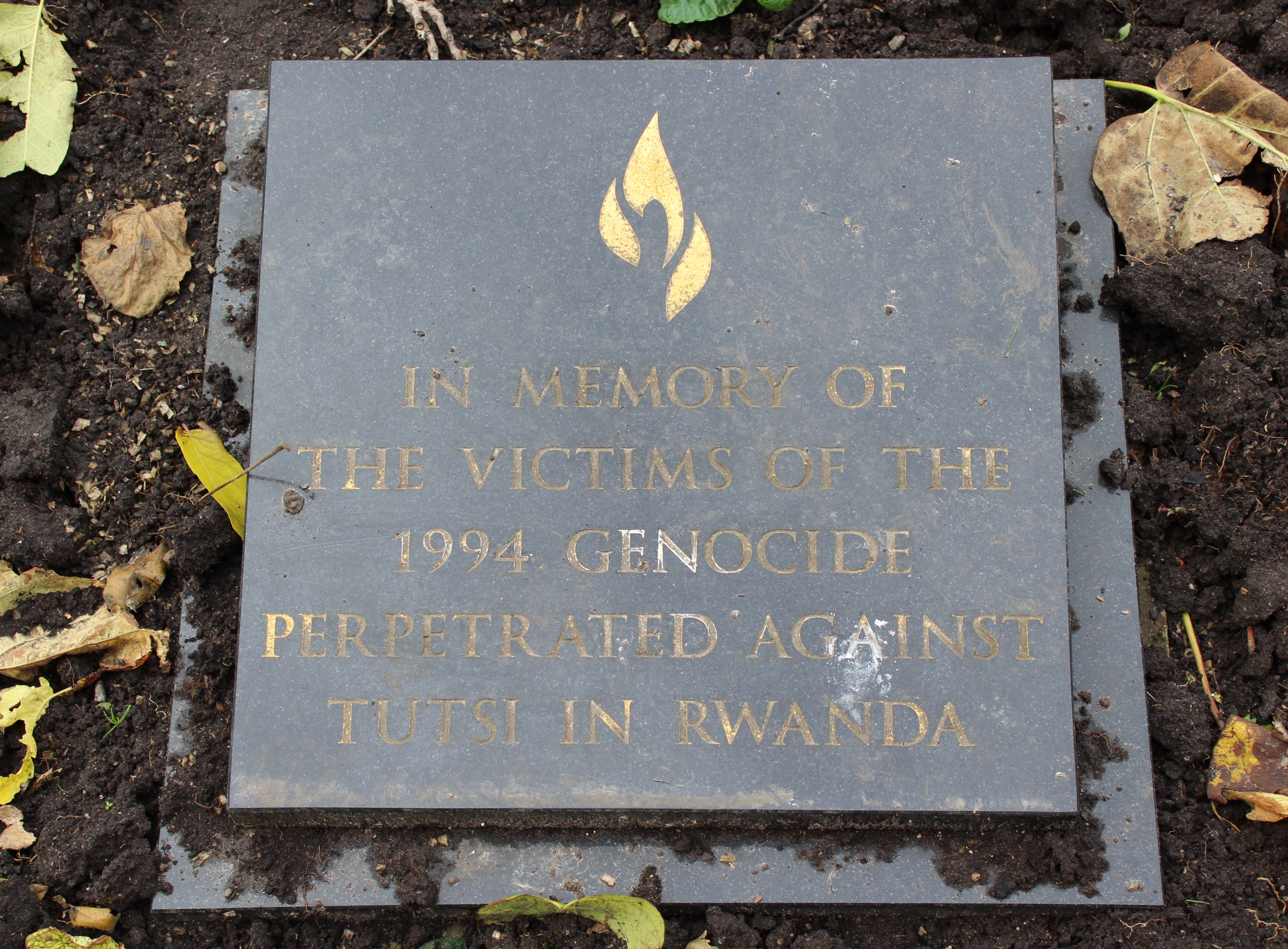 Memorial to Tutsi people massacred in 1994 in Rwanda